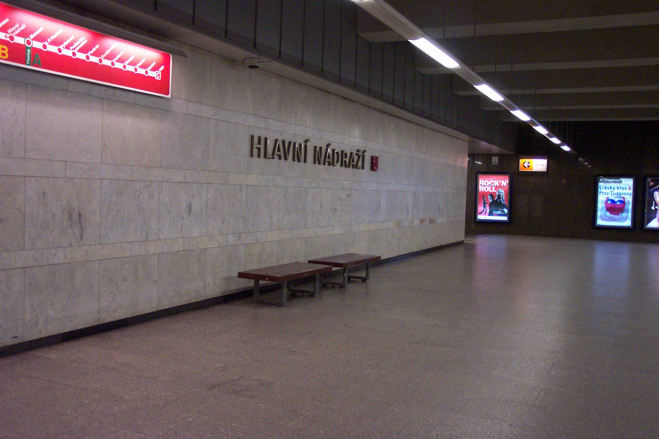 Metro station Hlavní nádraží in Prague